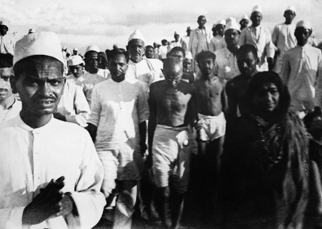 Gandhi during the Salt March, March-April 1930.